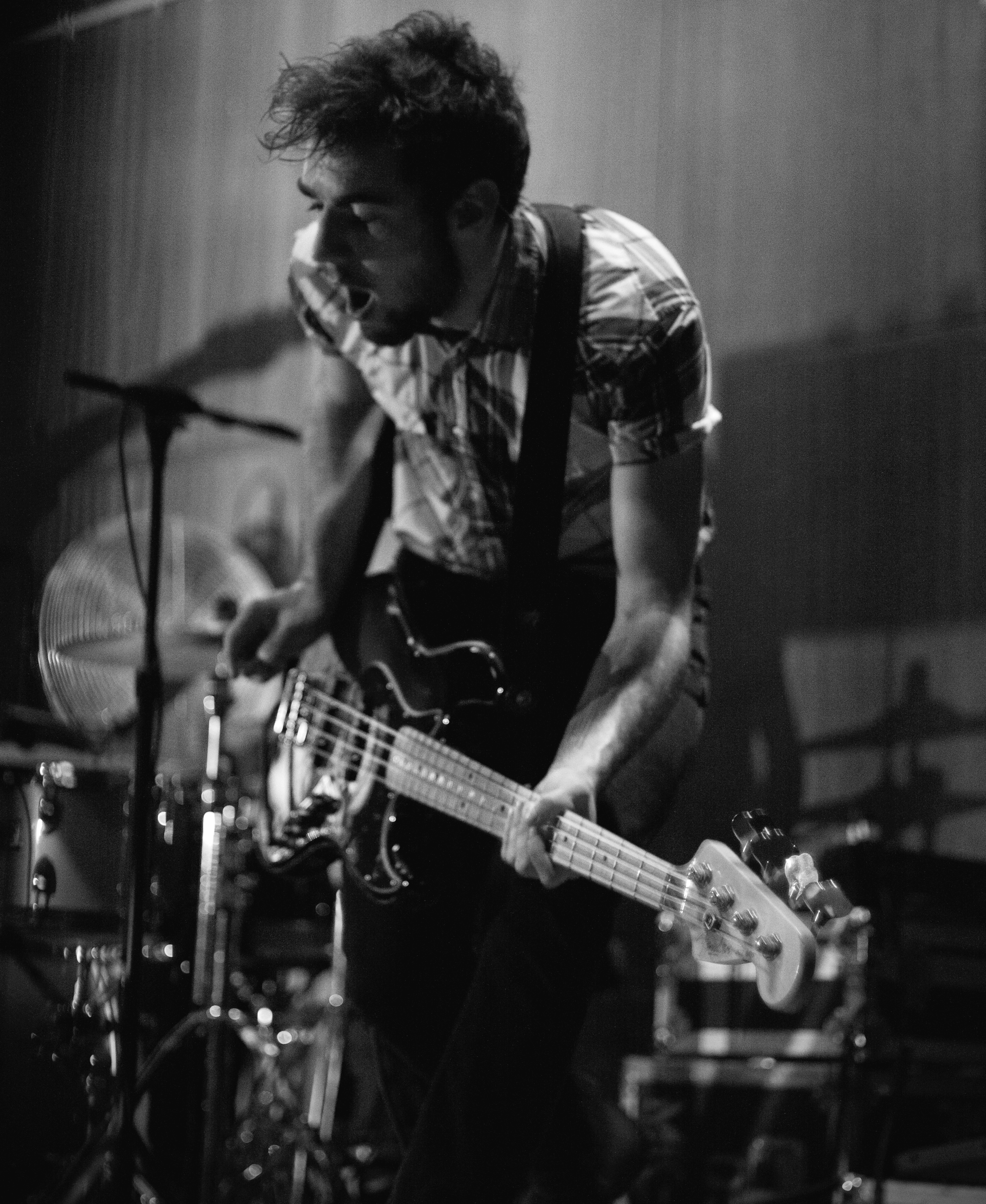 Bass guitarist of British band Two Door Cinema Club, Kevin Baird, at the First Unitarian Church of Philadelphia